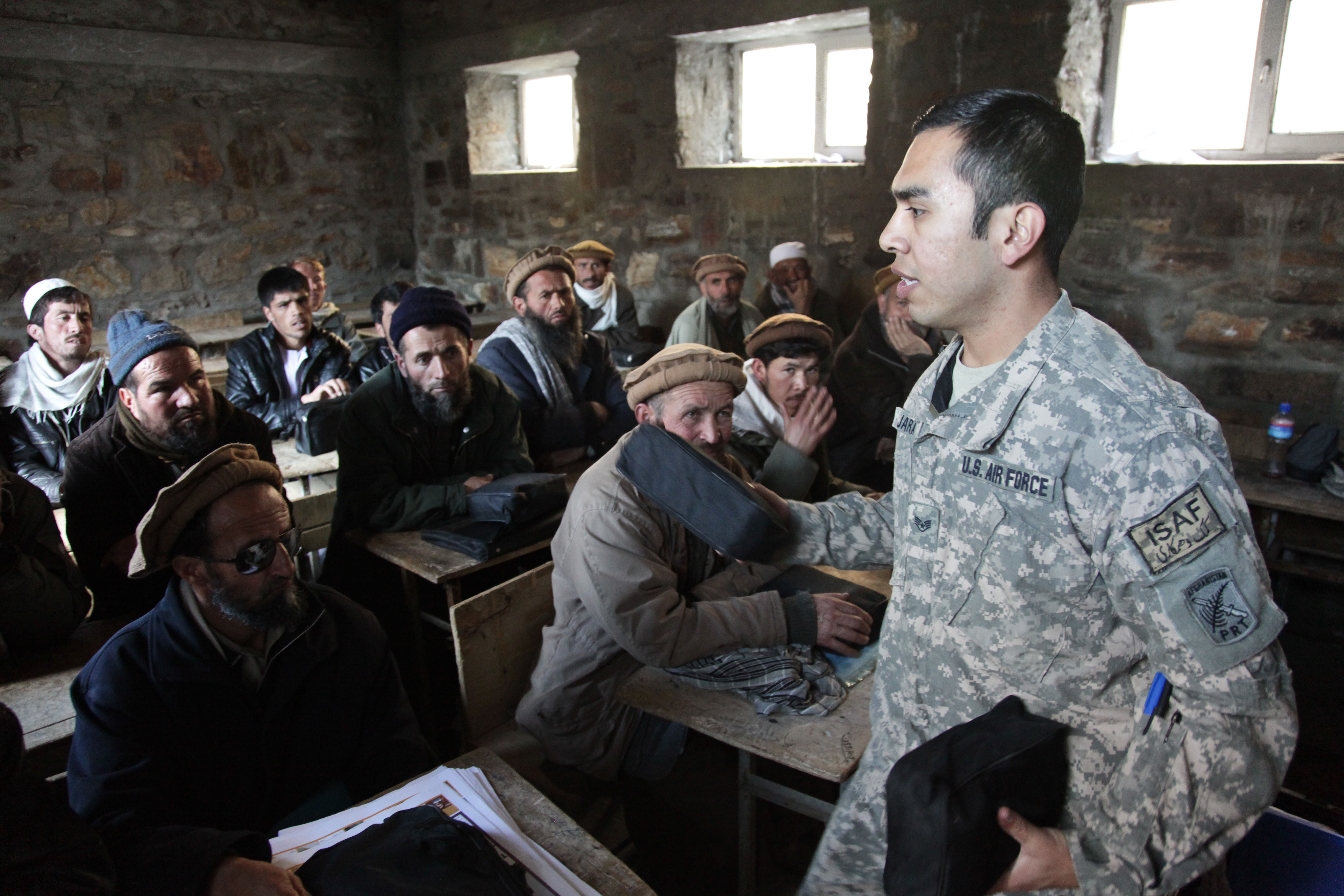 U.S. Air Force Staff Sgt. Abraham Jara hands out first aid kits to Afghan locals during a first aid class at a school in the Dara district of Panjshir province, Afghanistan, on Jan. 3, 2010. Jara is a medic assigned to the Panjshir Provincial Reconstruction Team.